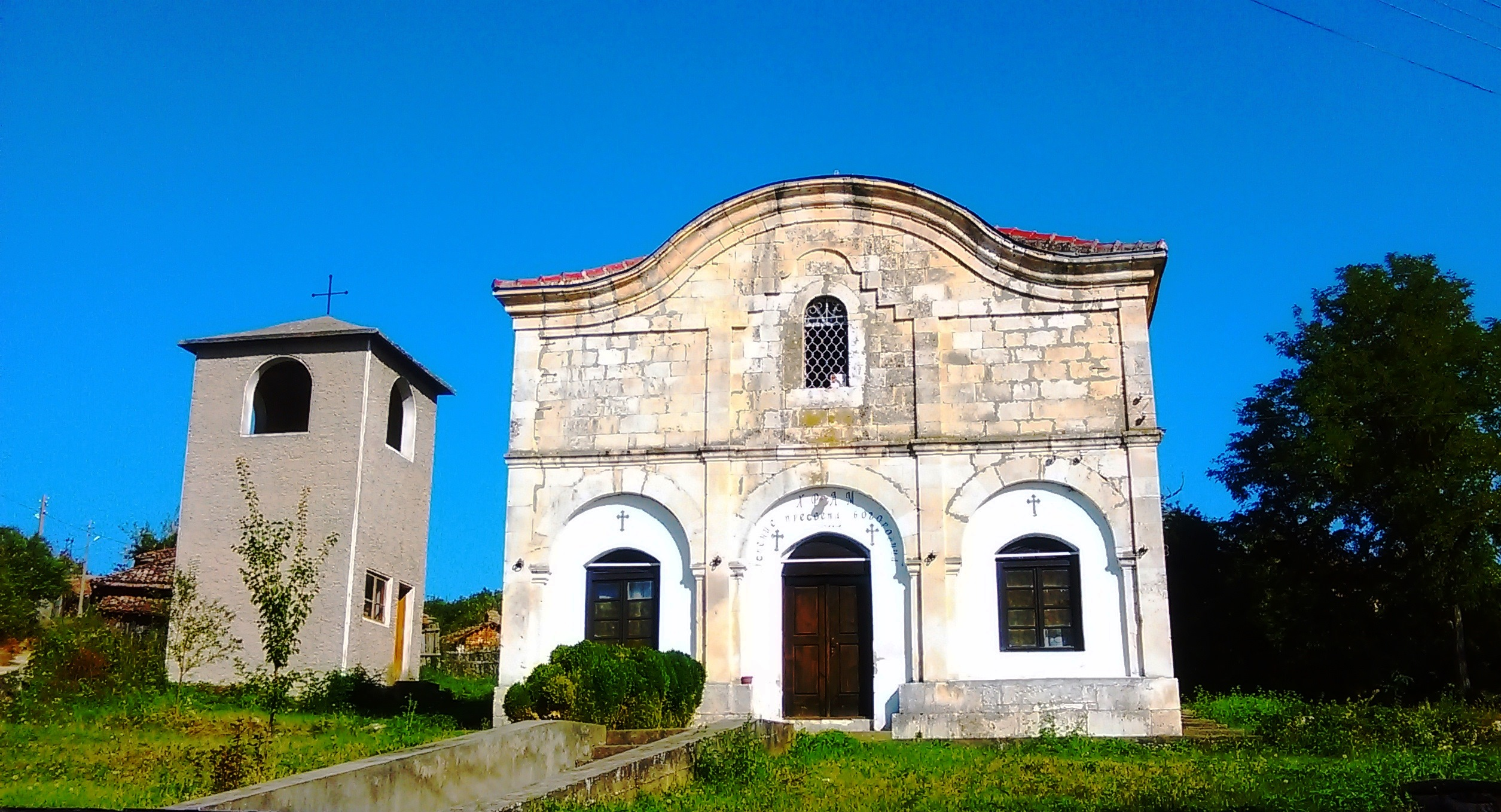 Dormition of the Mother of God village church in Kamenovo, Razgrad Province